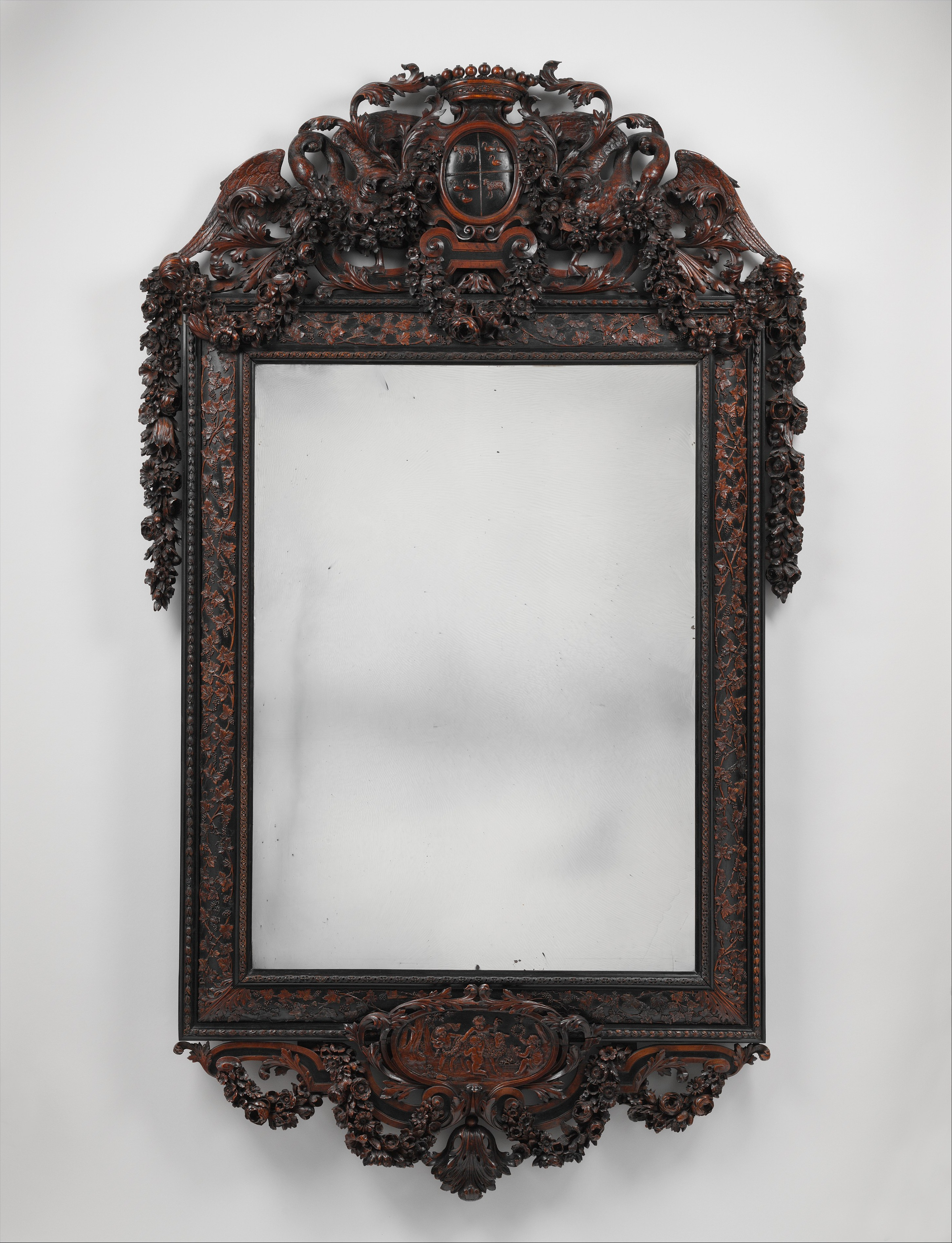 Dutch; Mirror; Woodwork-Furniture